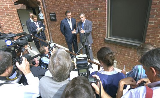 GWB: 1425-1455: visit w/employees of the Nebraska Avenue Homeland Security Complex. Homeland Security Complex